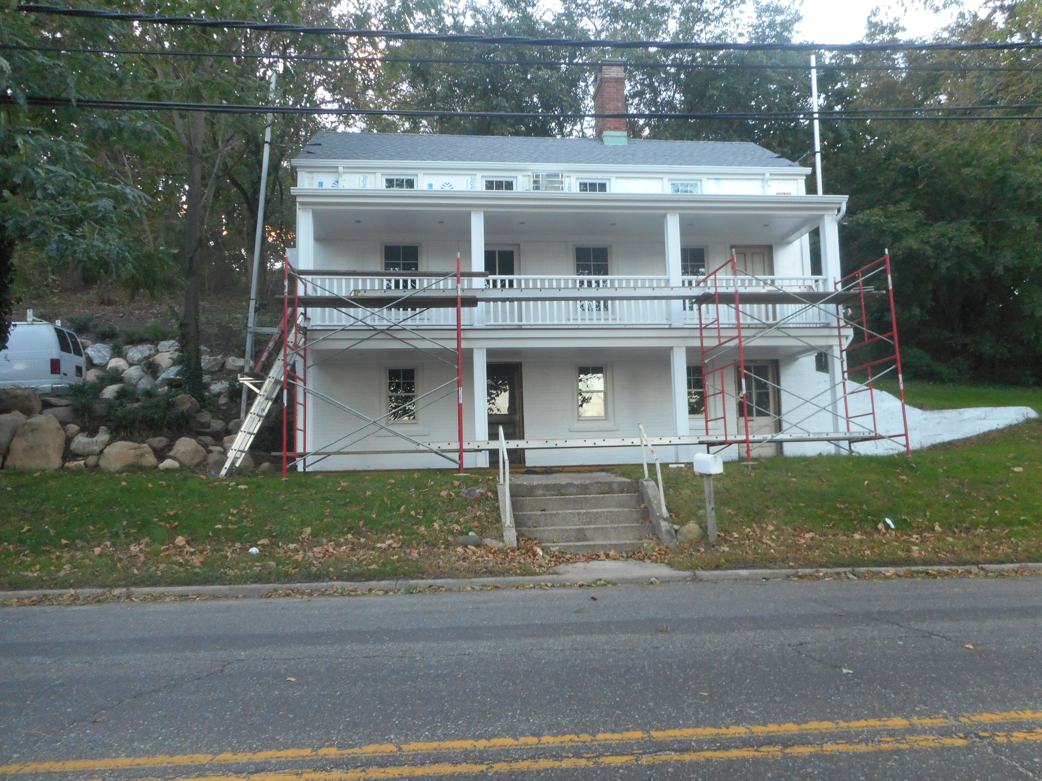 The historic 1827-built Potter–Williams House on 165 Wall Street in Huntington, New York. The house has been listed on the National Register of Historic Places since 1985, and was in the process of being restored when this picture was taken, as indicated by the scaffolding in front of the house.